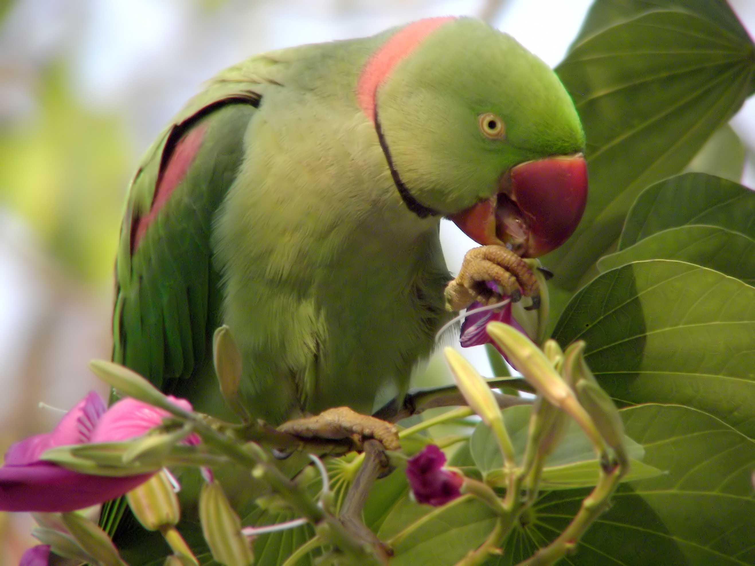 Alexandrine Parakeet at Kowloon Park, Hong Kong.